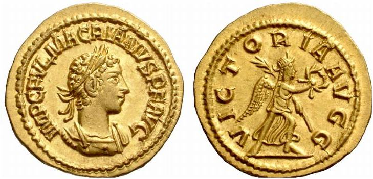 Macrianus, 260/261, AV aureus, 22mm. Antioch mint. IMP C FVL MACRIANVS P F AVG, laureate, draped, cuirassed bust right / VICTORIA AVGG, Victoria advancing right, holding wreath and palm. RIC V-2, 3; Göbl 1744a; Vagi 2367; Calicò 3702.